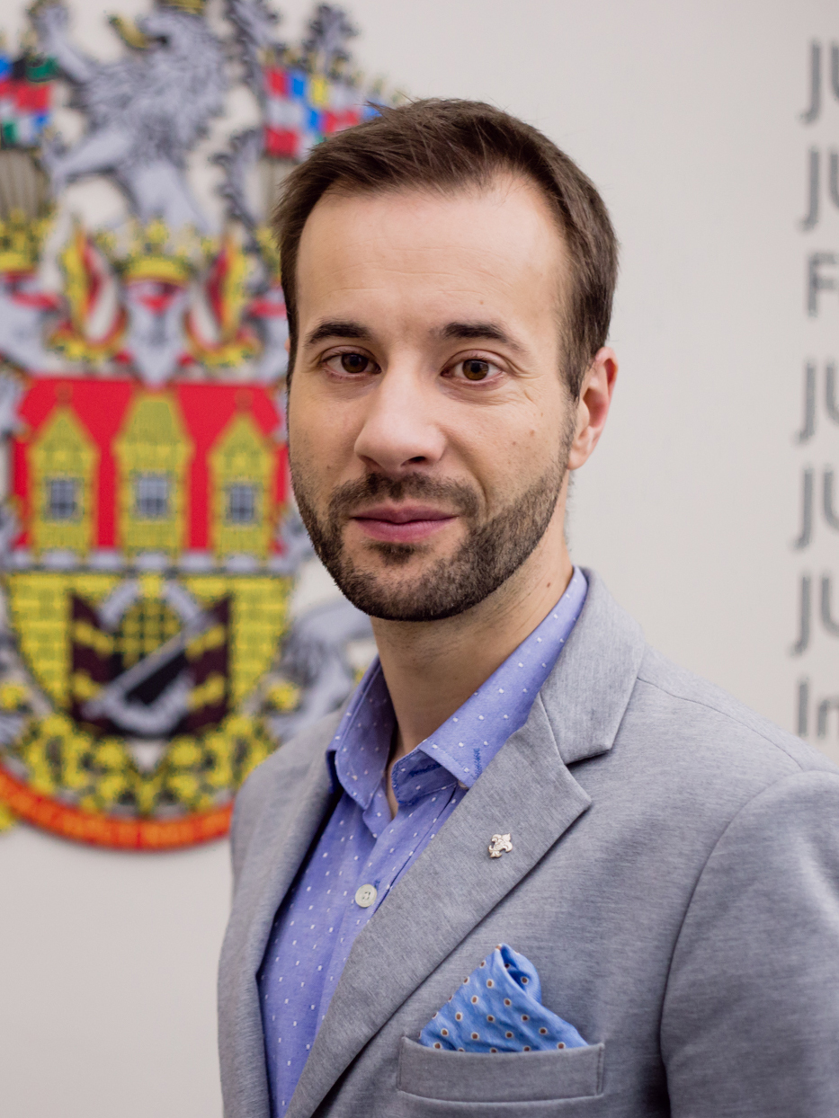 Vít Šimral, member of the Prague City Council Personality rights warningAlthough this work is freely licensed or in the public domain, the person(s) shown may have rights that legally restrict certain re-uses unless those depicted consent to such uses. In these cases, a model release or other evidence of consent could protect you from infringement claims.